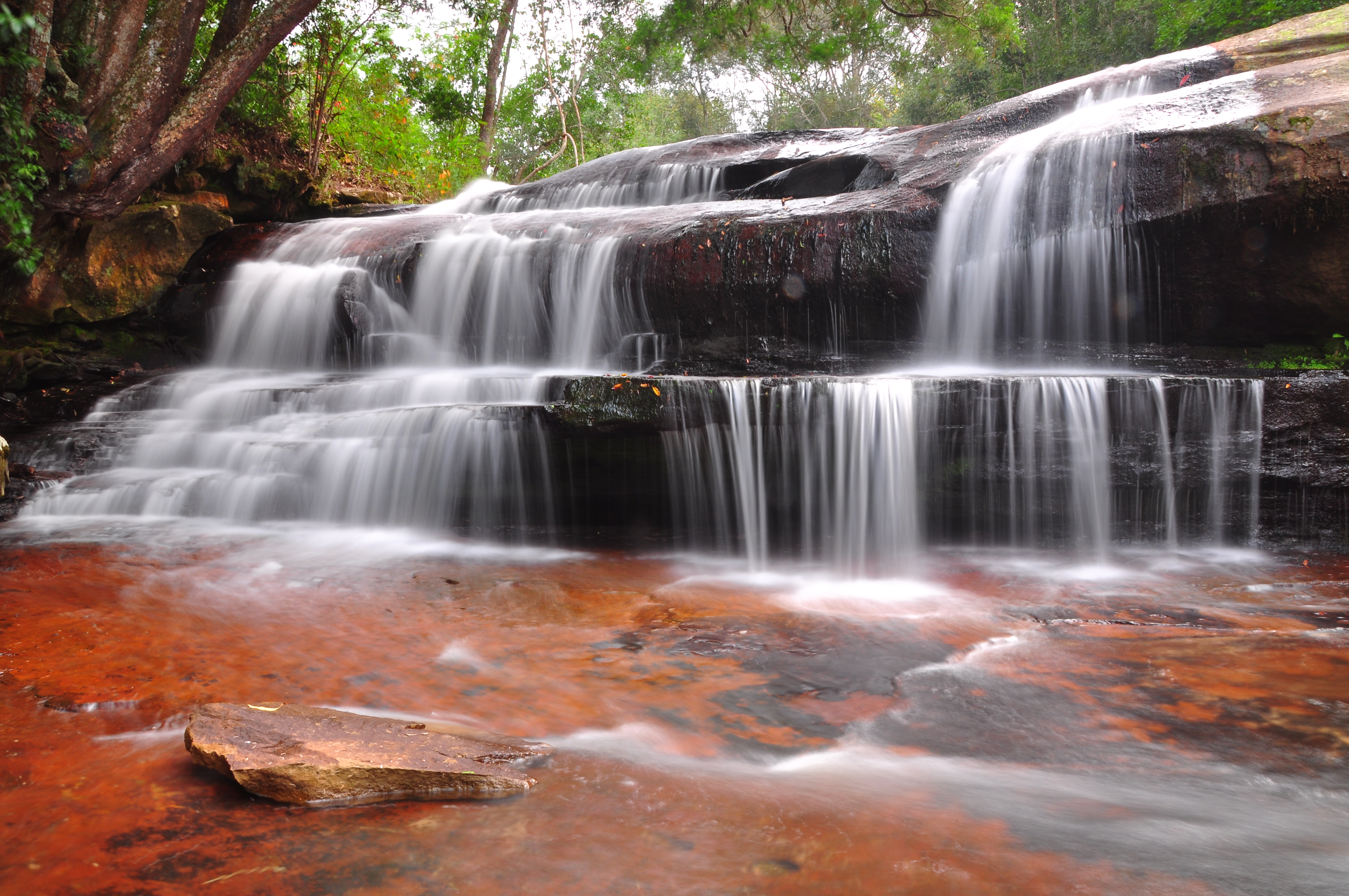 อุทยานแห่งชาติภูกระดึง